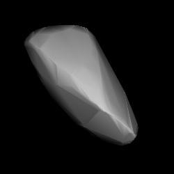 3D convex shape model of 1029 La Plata, computed using light curve inversion techniques. J. Hanuš, J. Ďurech, M. Brož, B. D. Warner (June 2011). "A study of asteroid pole-latitude distribution based on an extended set of shape models derived by the lightcurve inversion method". Astronomy and Astrophysics 530: A134. ISSN 0004-6361. arXiv